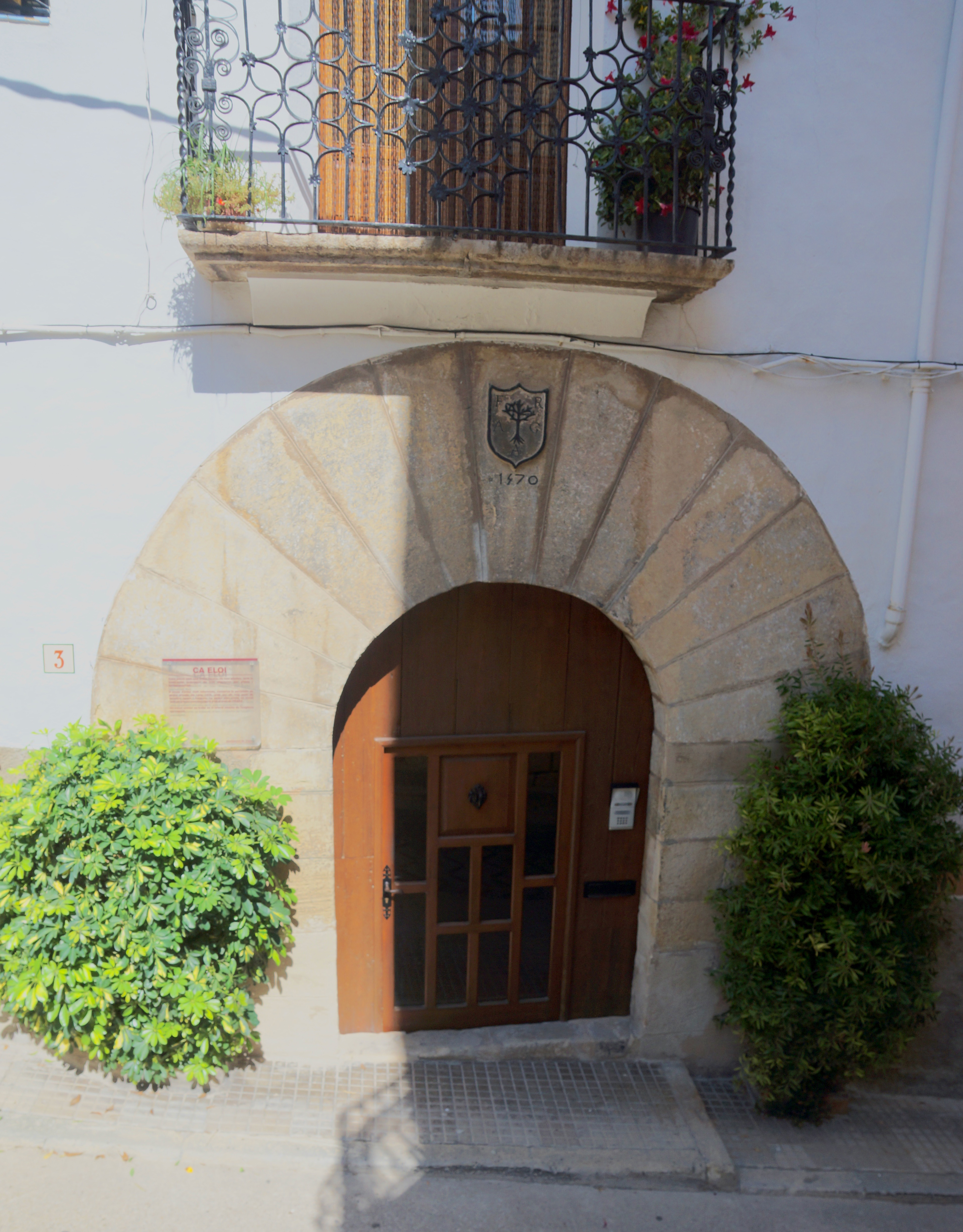 Tivissa, Catalonia: Door of Ca l'Hostal